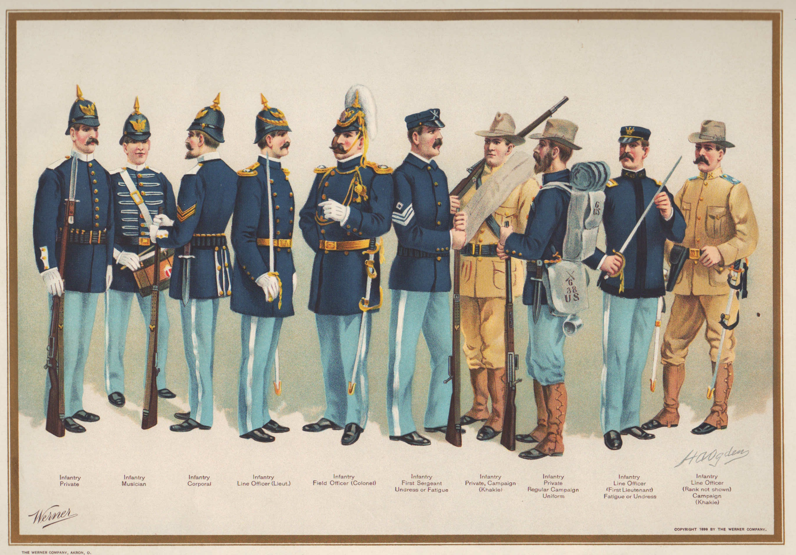 Uniforms of the United States infantry in 1899